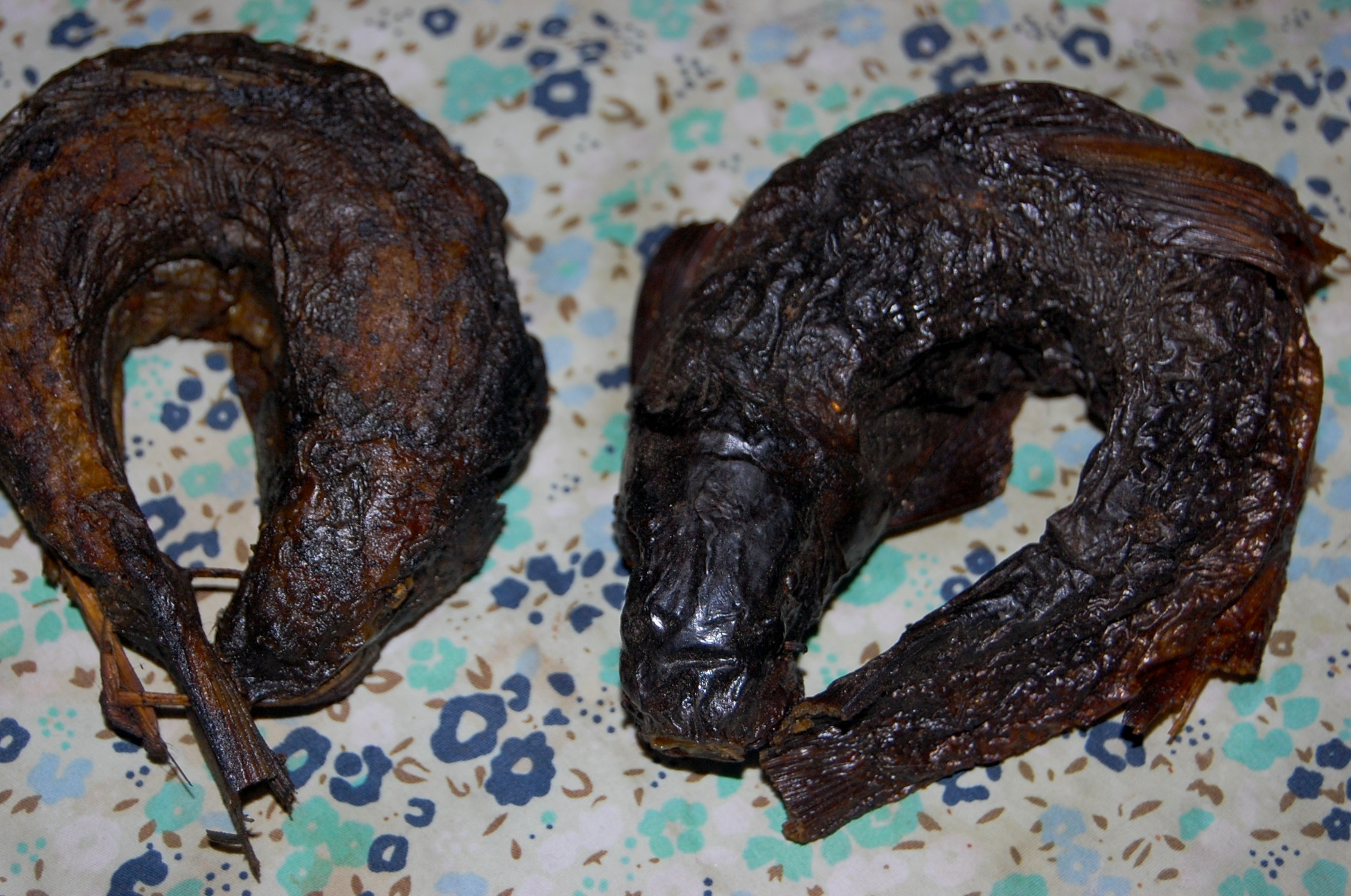 The delicious fish of Shankhuwa river of Shankhuwasabha, Nepal